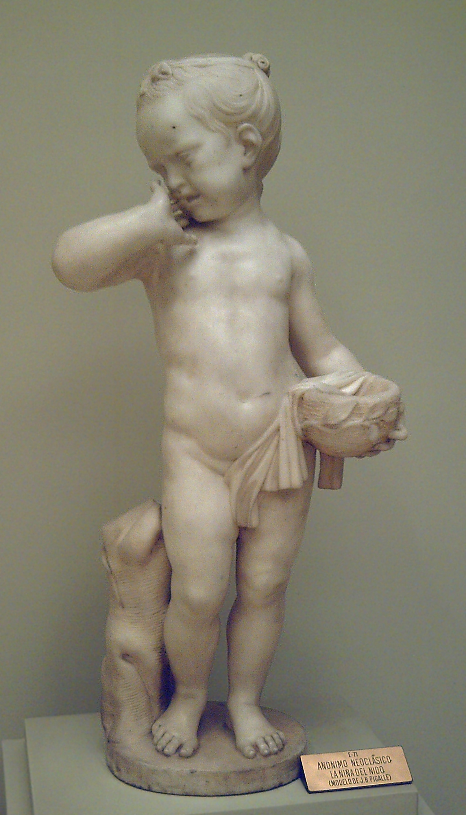 Based on a terracotta prototype by Charles-Antoine Bridan from 1784, on display at the Museum of Fine Arts of Chartres. It forms a pair with Little Boy with a Bird.